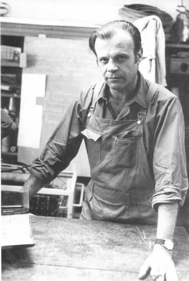 Agustín Gringo Tosco (1930-1975) was an Argentine union leader, member of the CGT (General Confederation of Labour) and an important participant in the historic local uprising known as the Cordobazo.